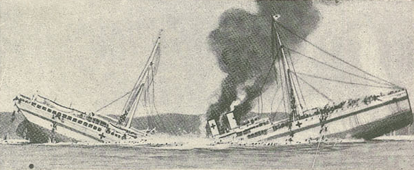 The streamship Portugal, hospital ship requisitioned for use by the Russian government during the First World War, is torpedoed by the Germans (30 March, 1916), causing the deaths of many injured as well as that of nurses and seamen.